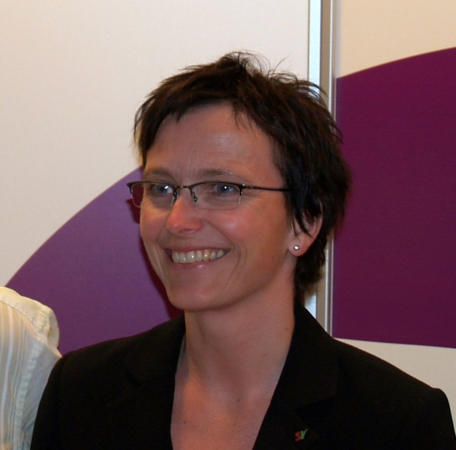 Norwegian Minister of Government Administration and Reform, Heidi Grande Røys.